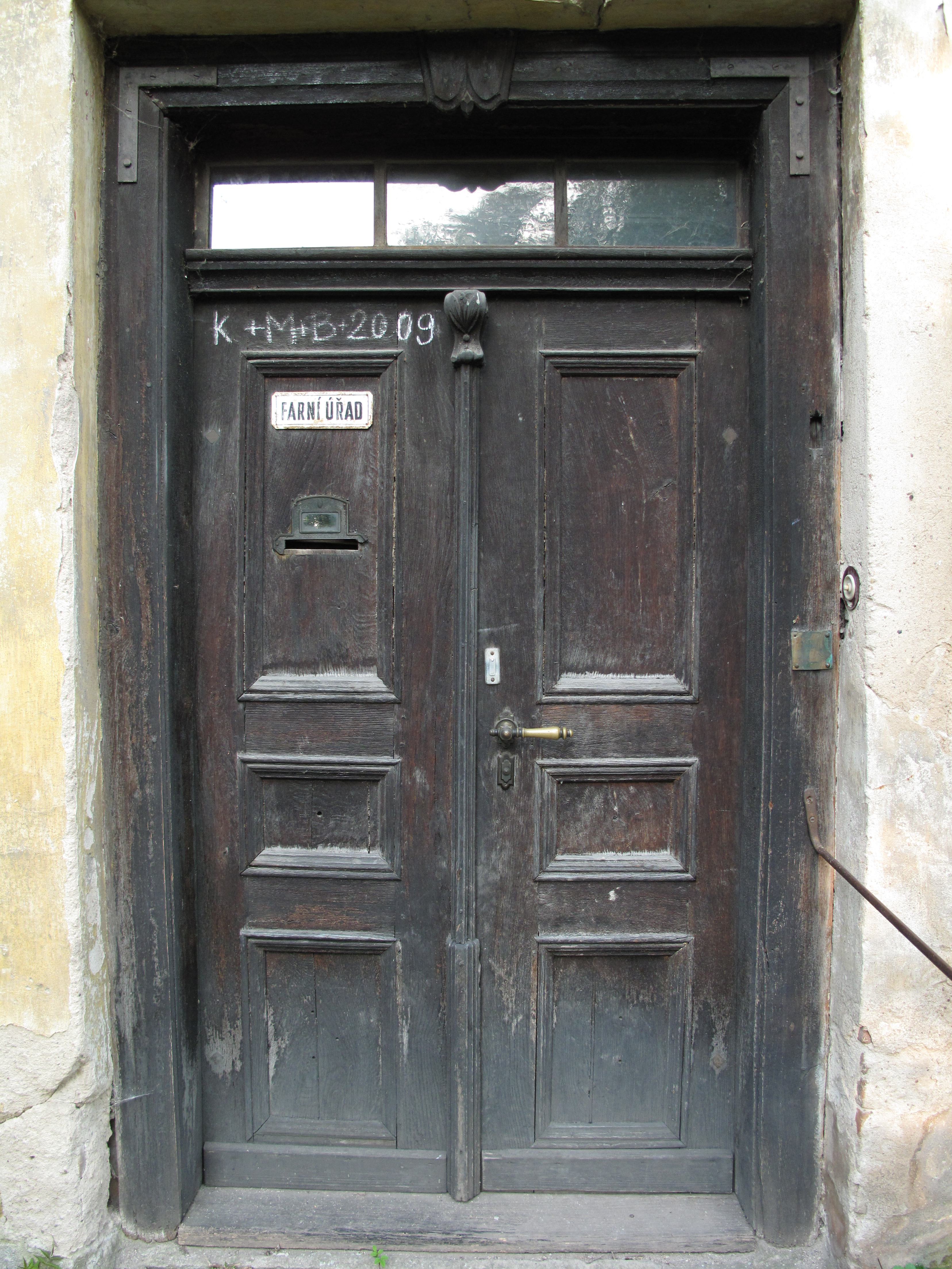 Door of the rectory in detail in Lstiboř village, Kolín District, Czech Republic.